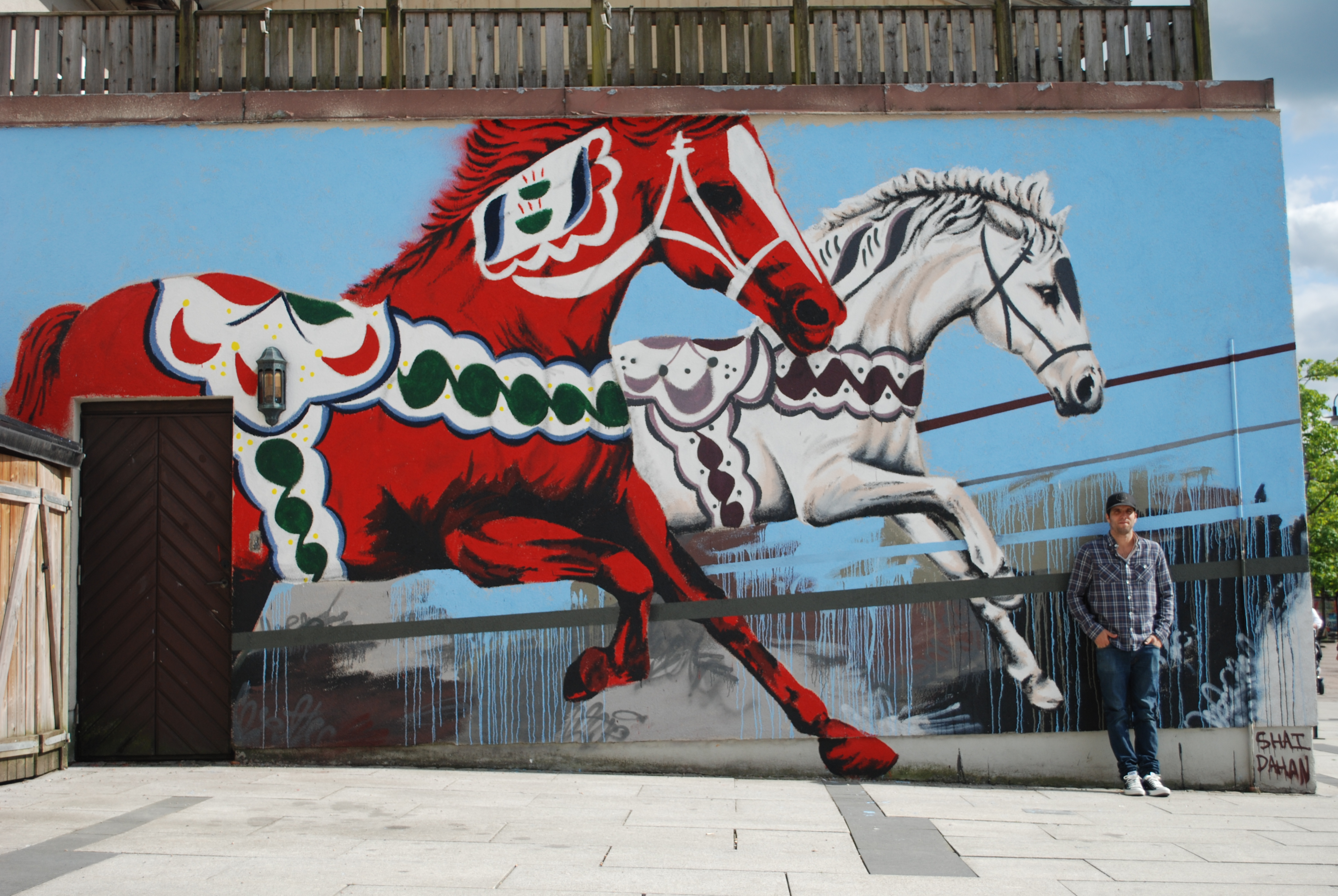 Photo of Shai Dahan standing at his mural at Sandvallplats in Borås, Sweden after completion.